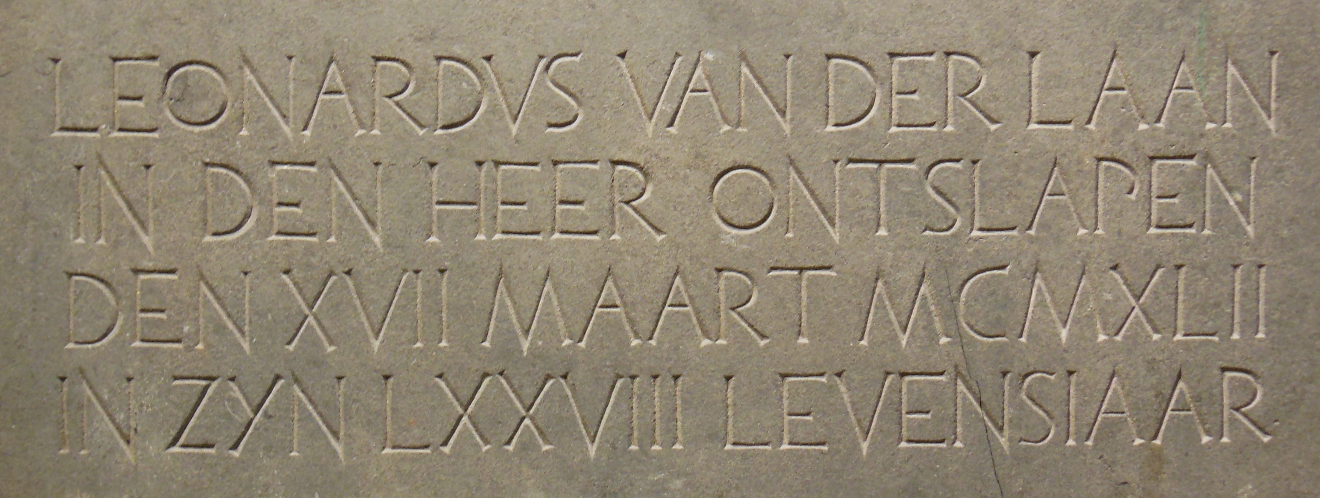 Saint Joseph church Leiden